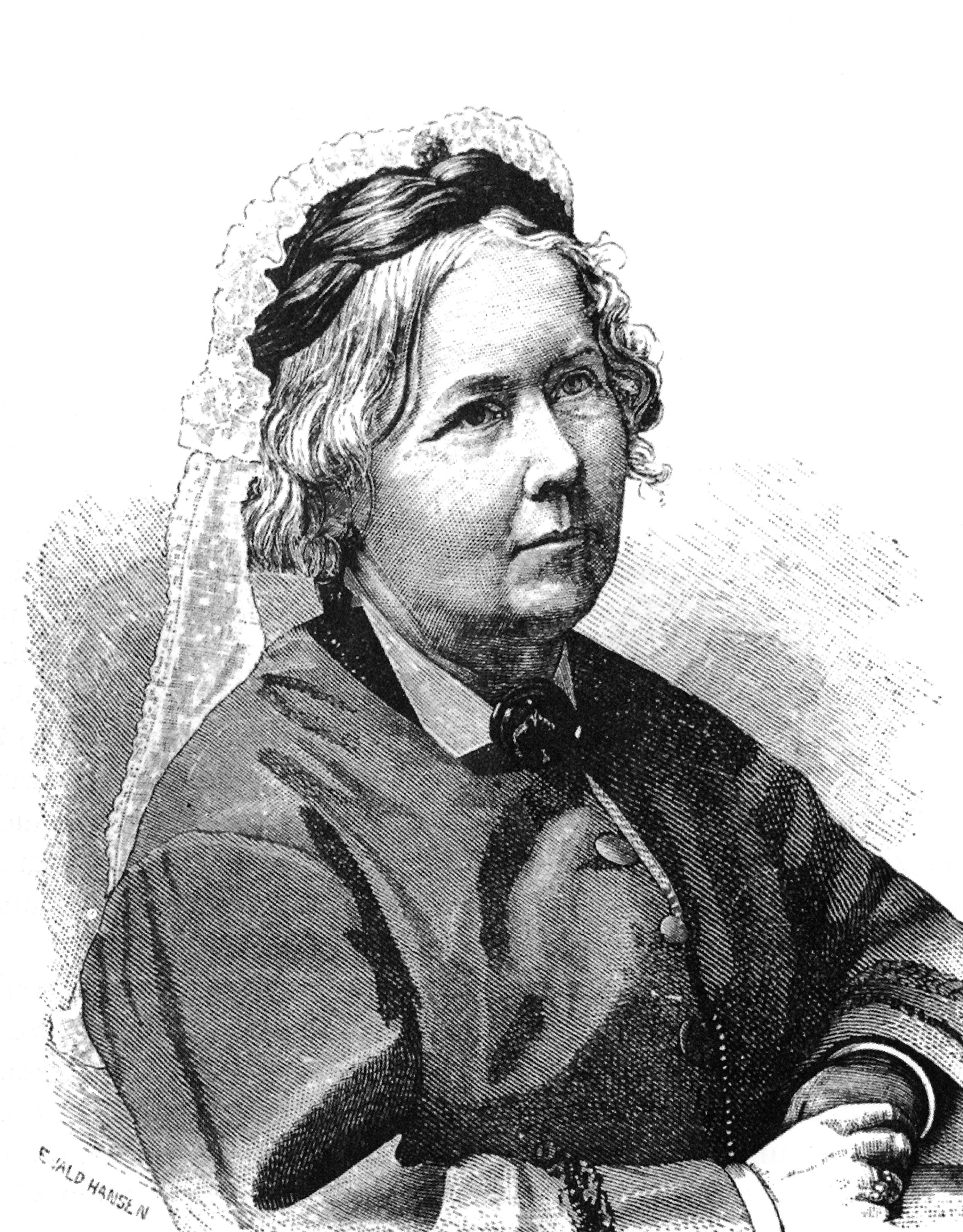 Cecilia Fryxell, 1806-1883, had her own private girlschool at Rostad outside Kalmar 1858-1877 and before that at Carlslund, not far from Västerås.